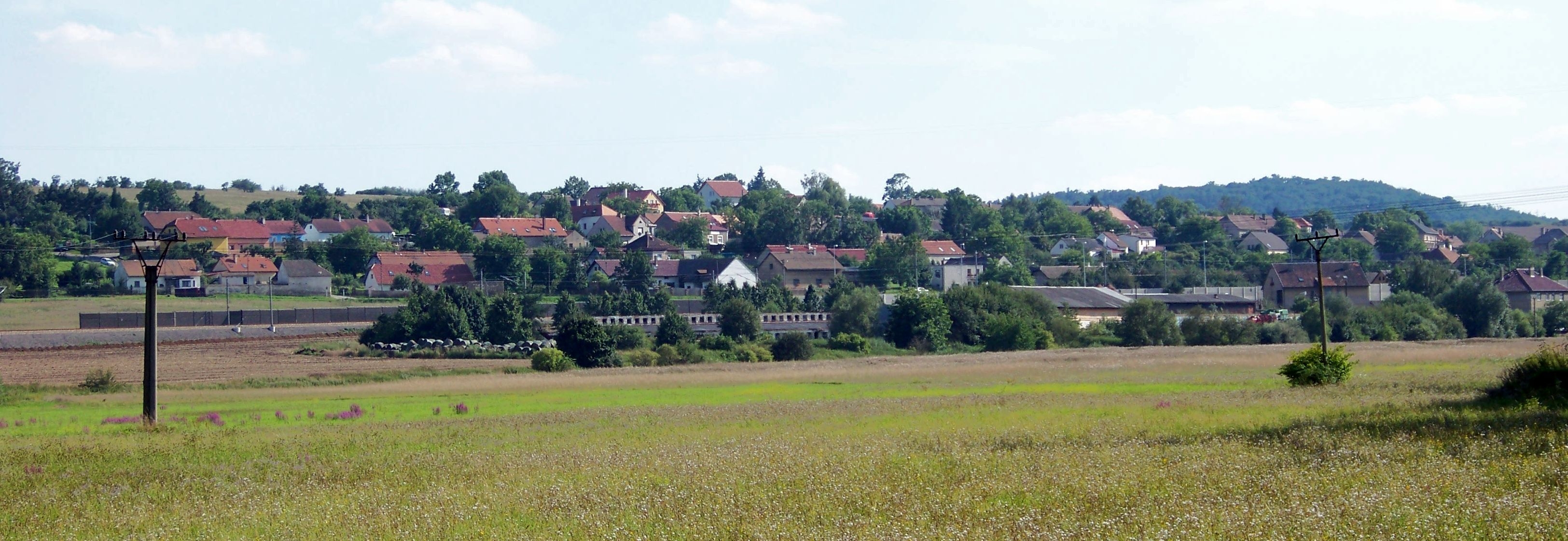 Stašov, Beroun District, Central Bohemian Region, the Czech Republic. A view from Bavoryně.